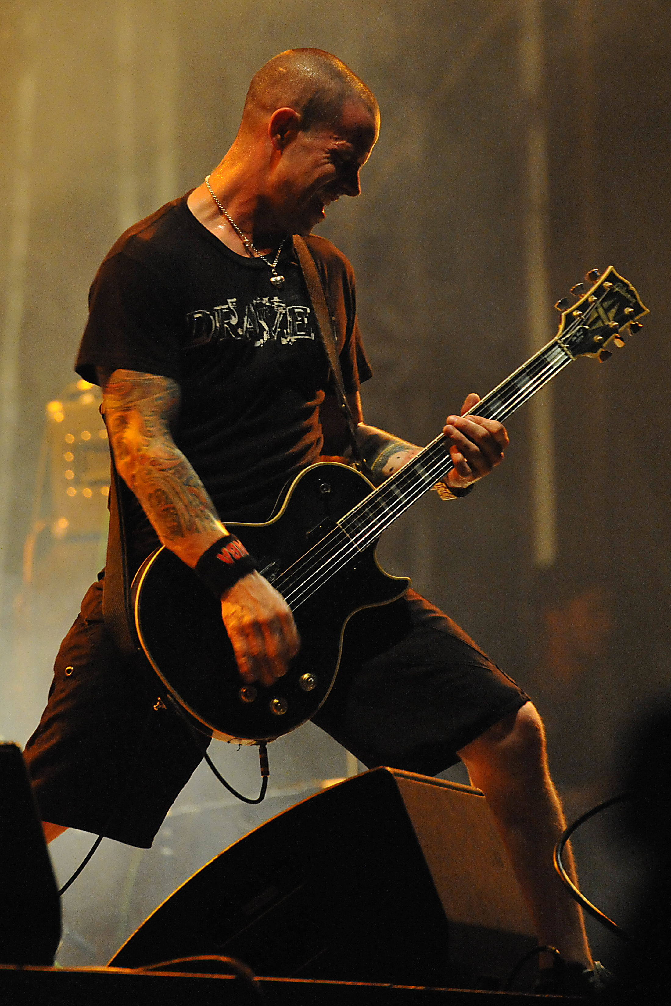 The lead-guitarist Dave Nassie during his last concert with No Use For A Name, which he left for Bleeding Through. The picture was taken at the Rheinkultur festival in Bonn, Germany.